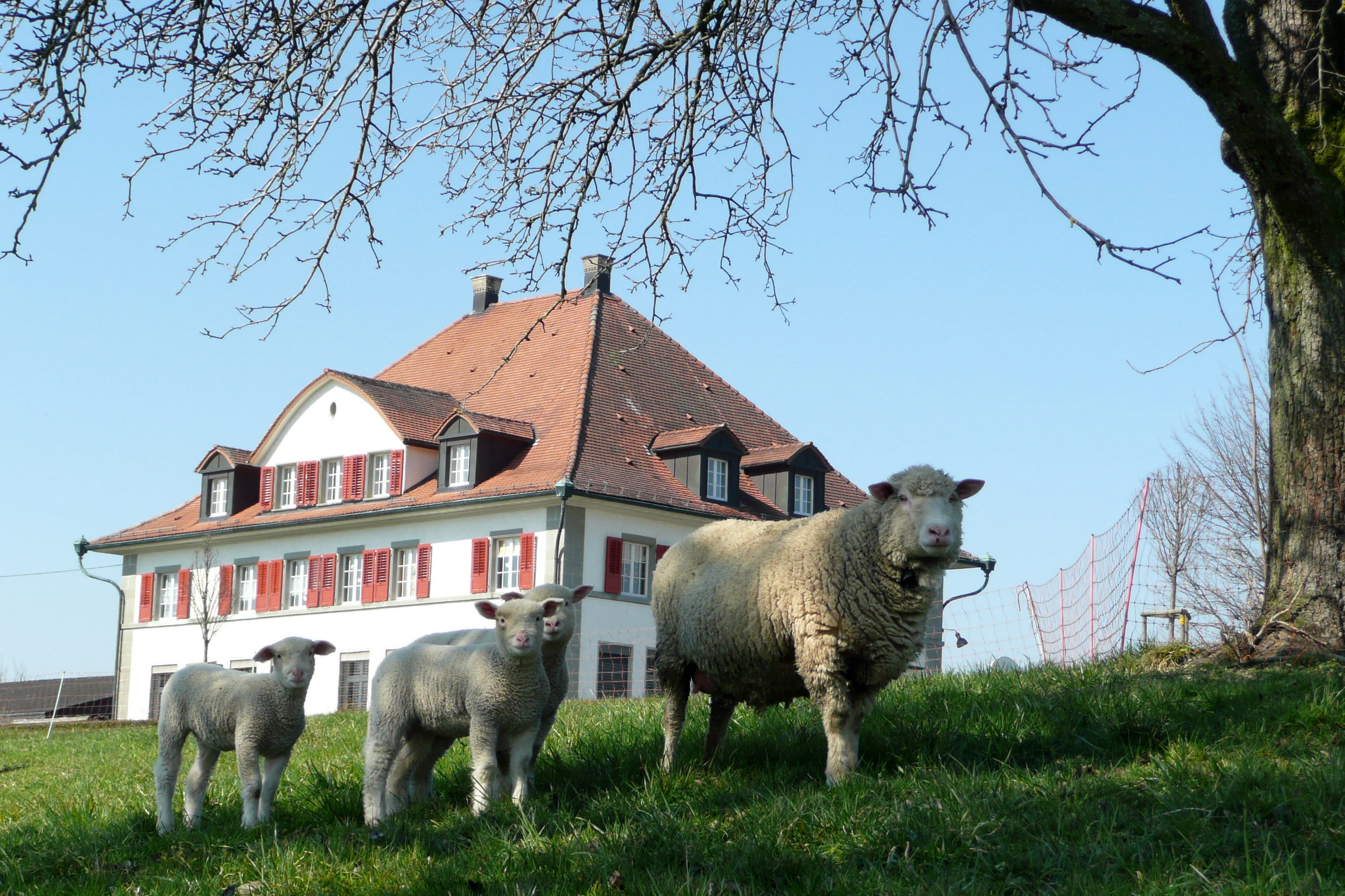 schoolhouse in Neukirch (Egnach), canton of Thurgau, Switzerland